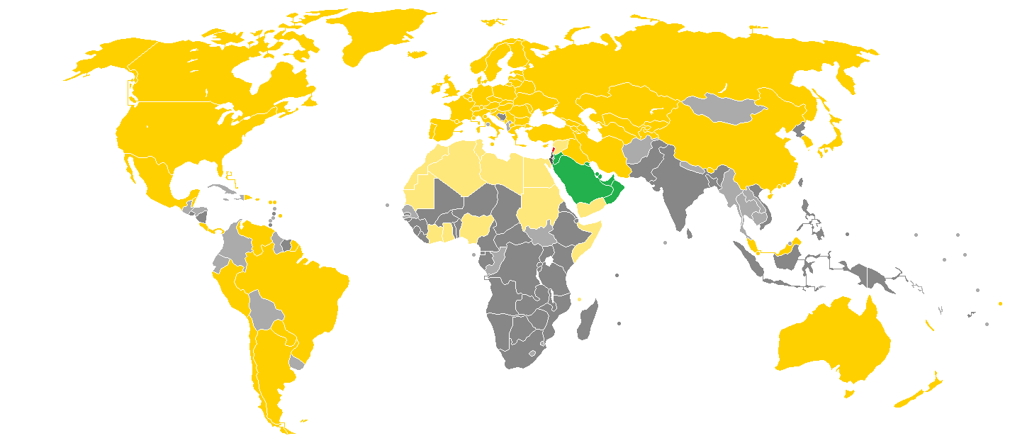 Visa policy of Lebanon